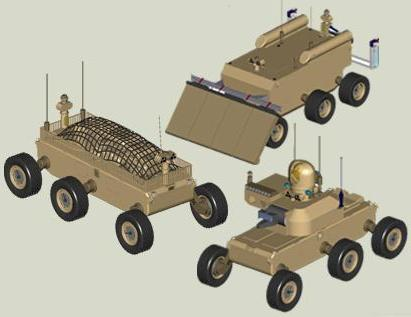 MULE